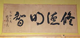 calligraphy of Kunihiko Hashida. "cultivate wisdom and virtue"